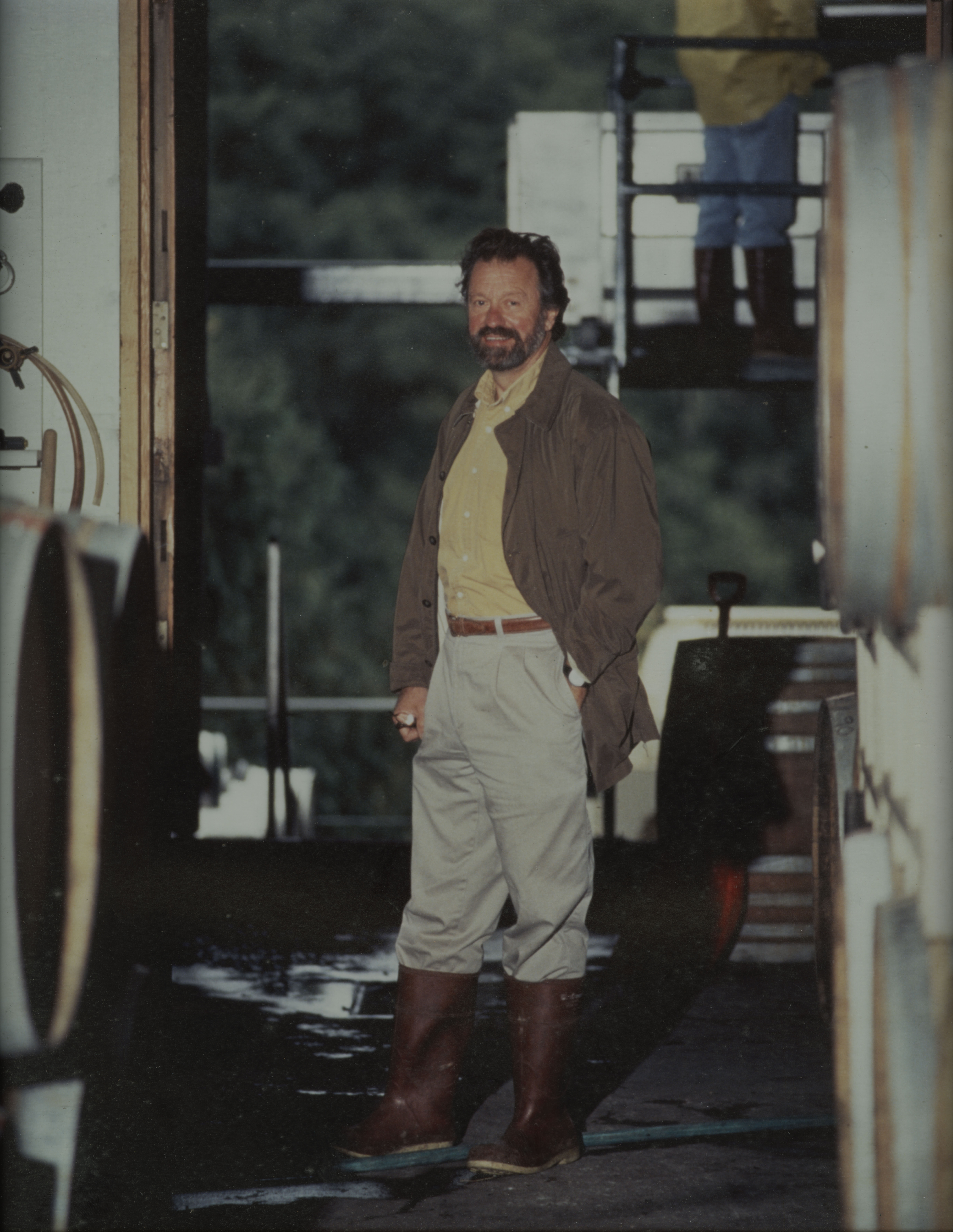 Dick Ponzi stands, in working attire, among wine barrels at his winery.